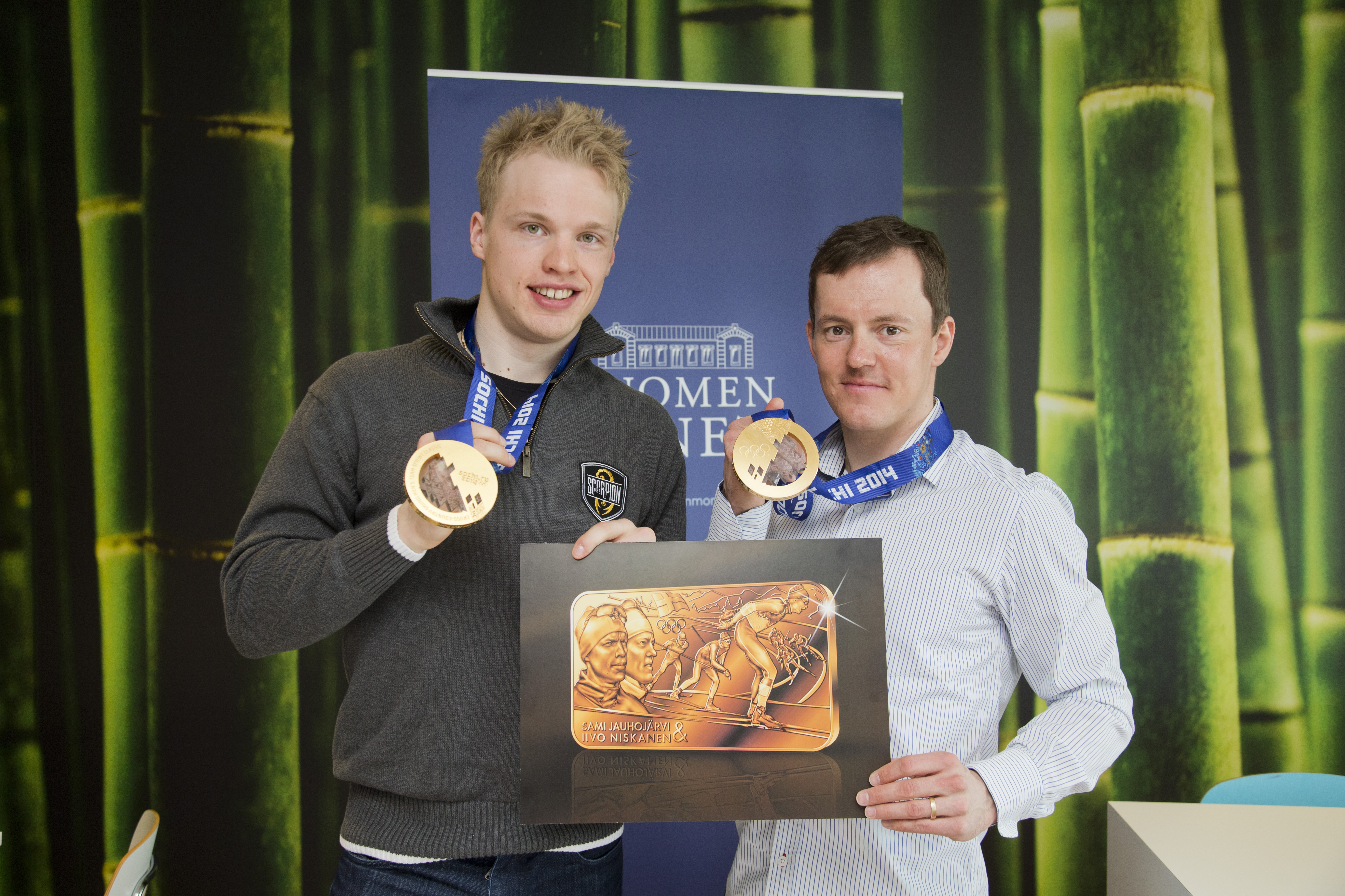 Finnish cross-country skiers Iivo Niskanen (left) and Sami Jauhojärvi.